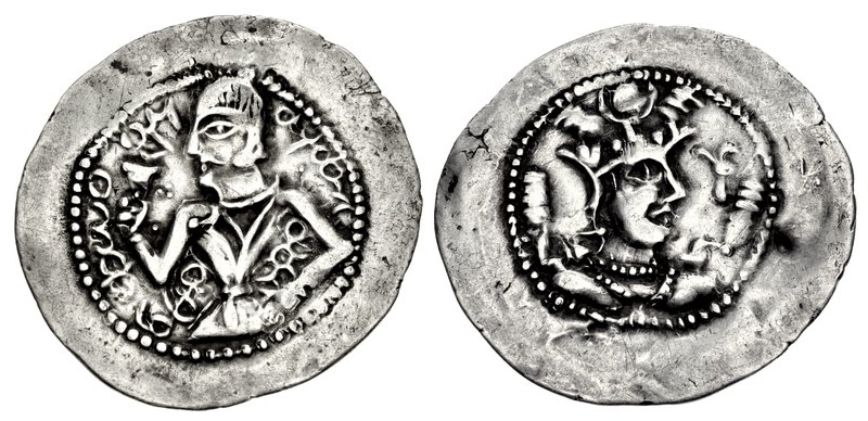 Hephthalites. Uncertain ruler. Late 5th century AD. AR Drachm (33mm, 3.95 g, 9h). Sasanian style bust imitating Khavadh I right; tamgha to right / Half-length bust of chieftan left, holding drinking cup; “ĒBO DALO” (?) in Baktrian around.